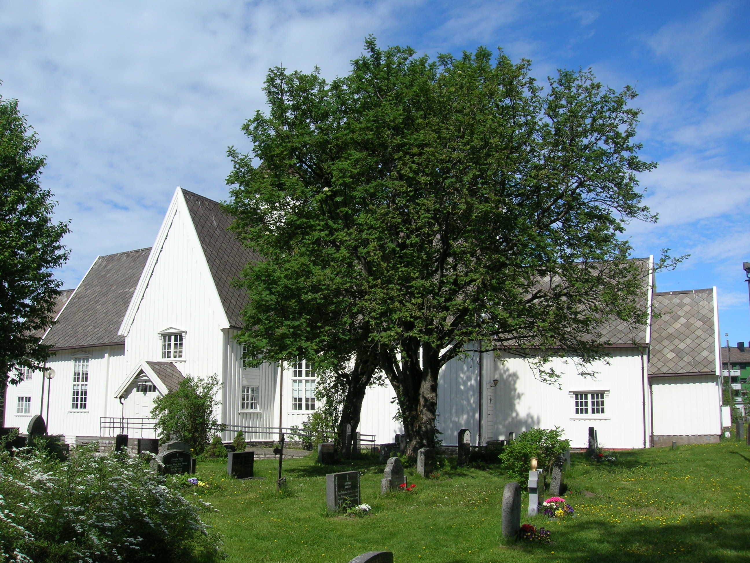 Mo church in Mo i Rana, municipality, Nordland, Norway, Photo June 10, 2007 with a Nikon Coolpix 5600 5,1 Megapixel camera.